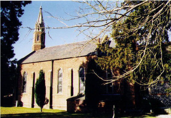 St Peter's parish church, Knowl Hill, Berkshire: designed by JC & G Buckler and built in 1840. W Scott Champion designed the chancel, which was added in 1870.